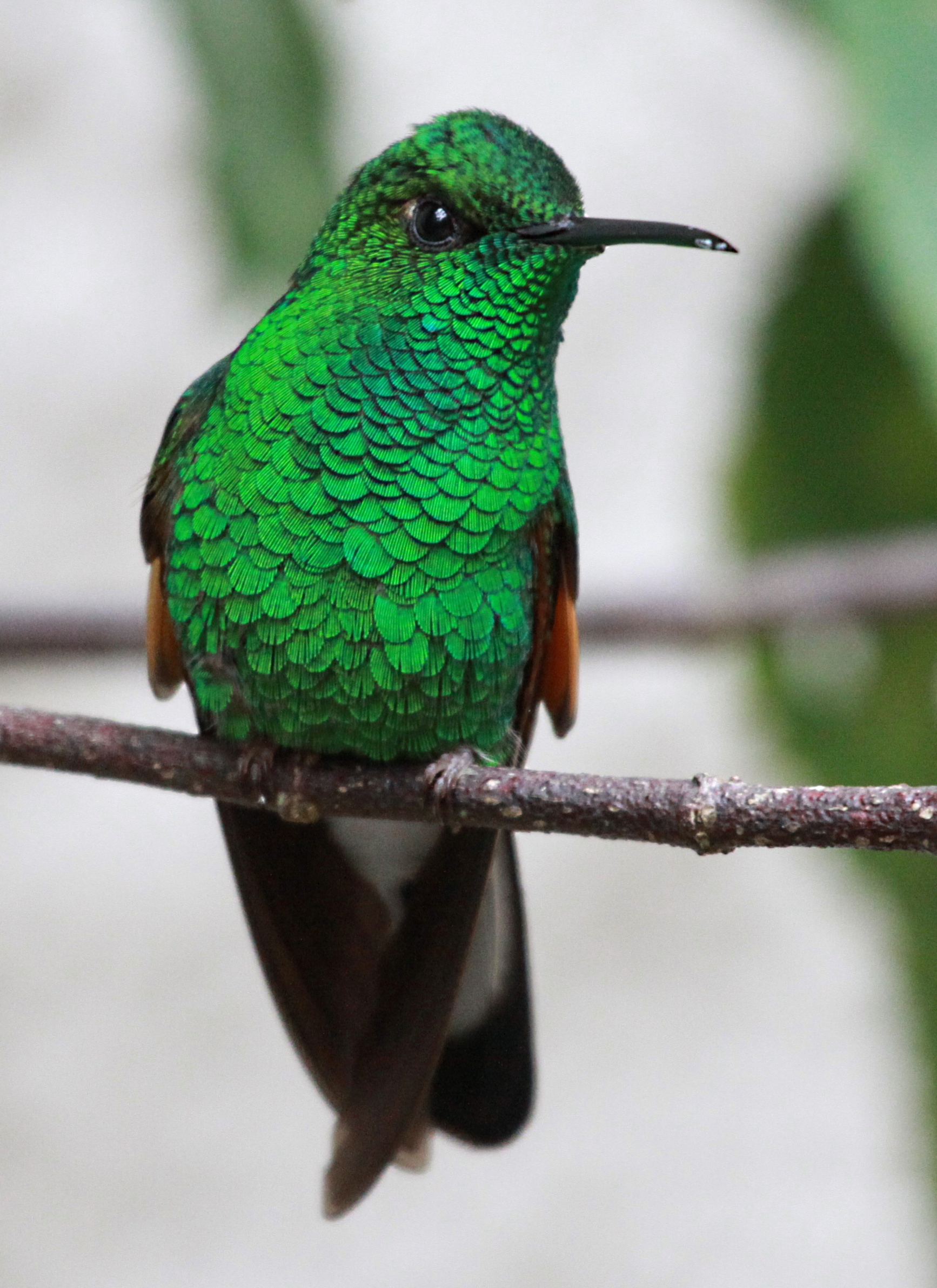 Stripe-tailed Hummingbird (Eupherusa eximia)